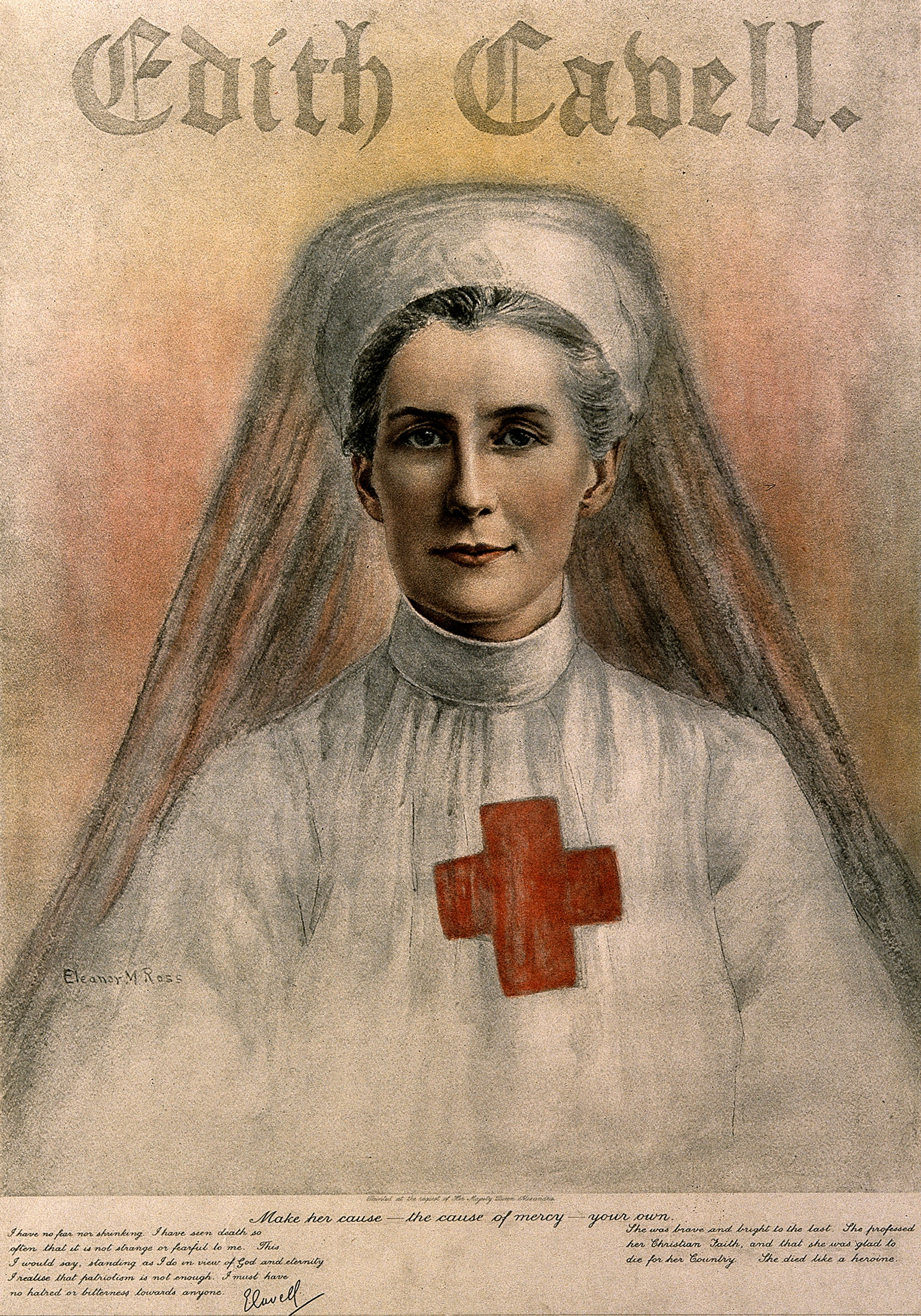 Edith Louisa Cavell. Reproduction after pastel drawing by Eleanor M. Ross. Iconographic Collections Keywords: cavell, edith louisa, 1865-191; portrait prints; Edith Louisa Cavell